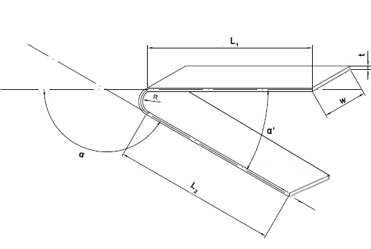 Analysis of the operation of Doubled of Sheets.